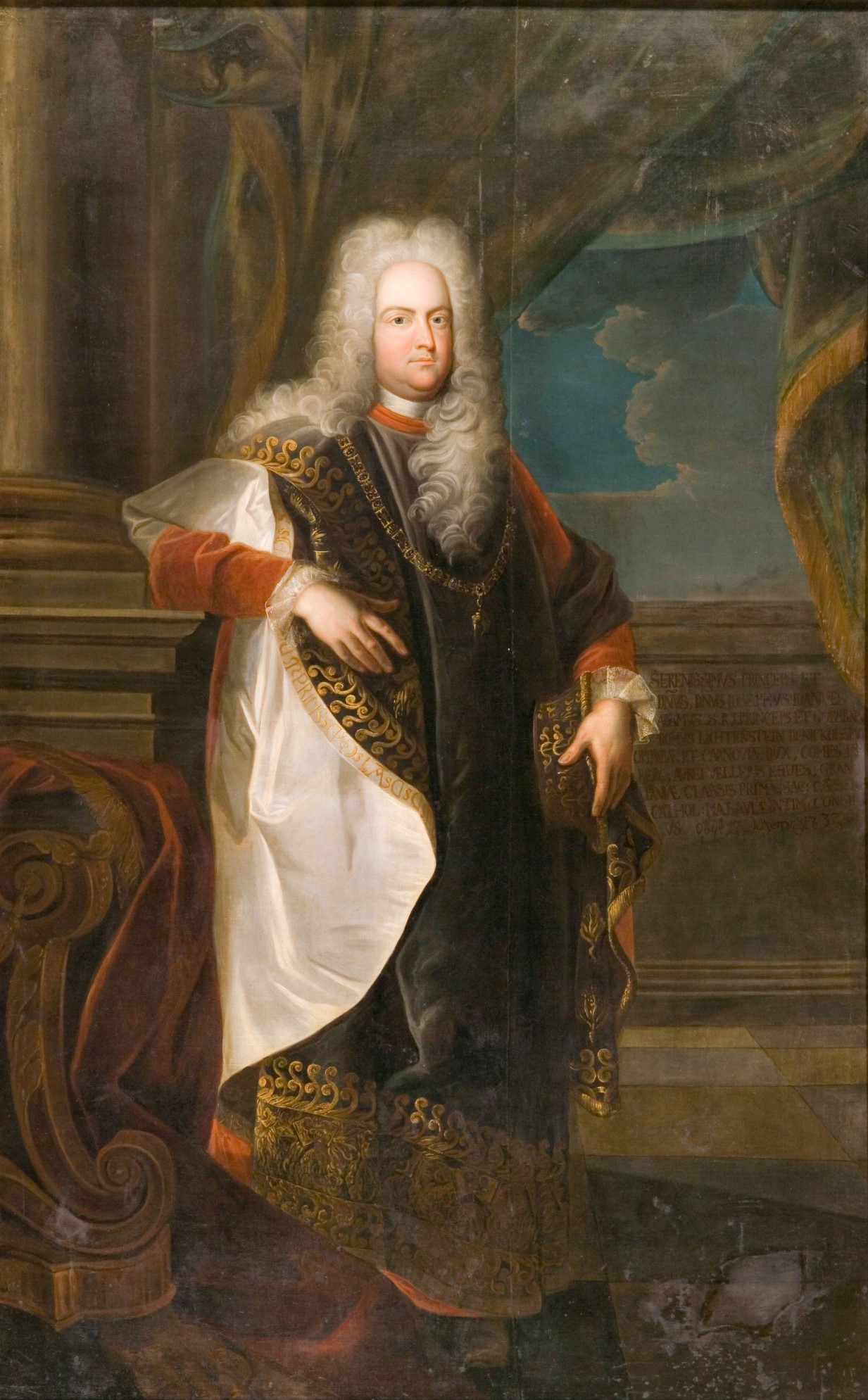 Josef Johann Adam von Liechtenstein (José Juan Adán). Príncipe de Liechtenstein (1719-1721)